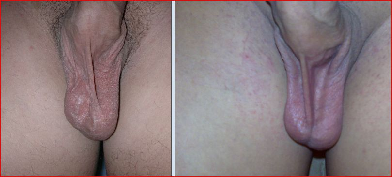 varicocele